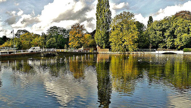 P1470187 Carshalton Ponds..